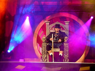 Raven in TNA at Impact taping Orlando Florida